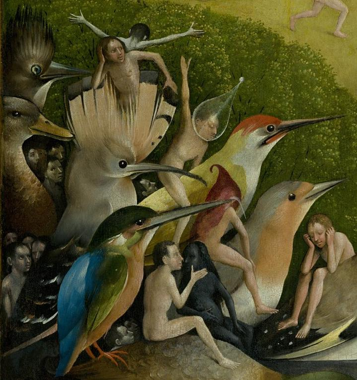 The Garden of Earthly Delights, central panel, detail.